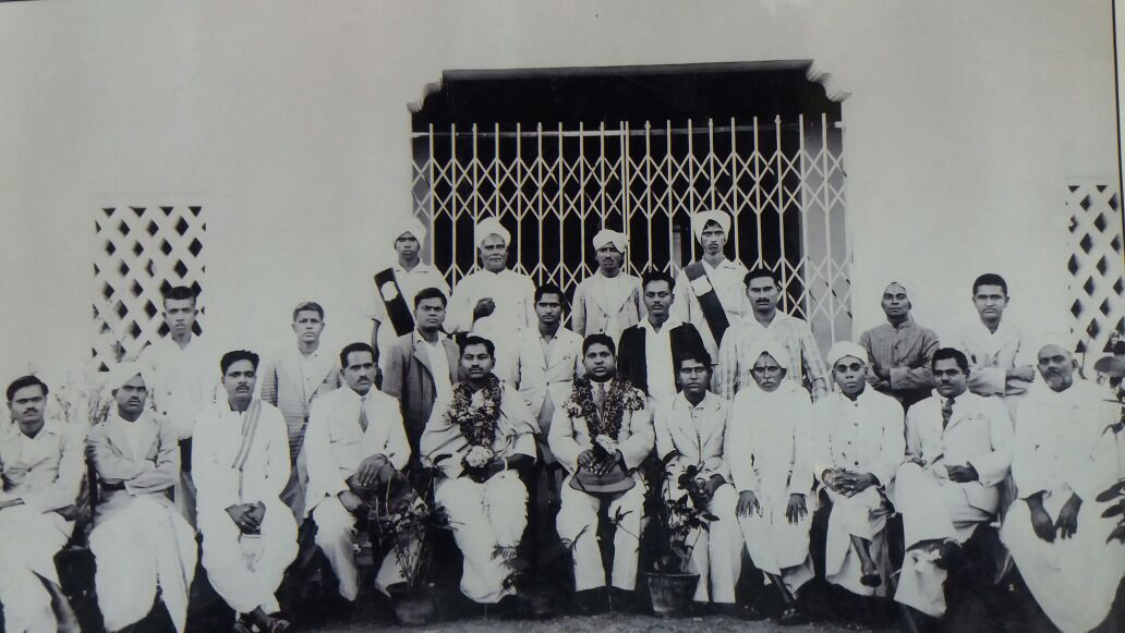 Moola Narayana Swamy at Co-operative Milk Society